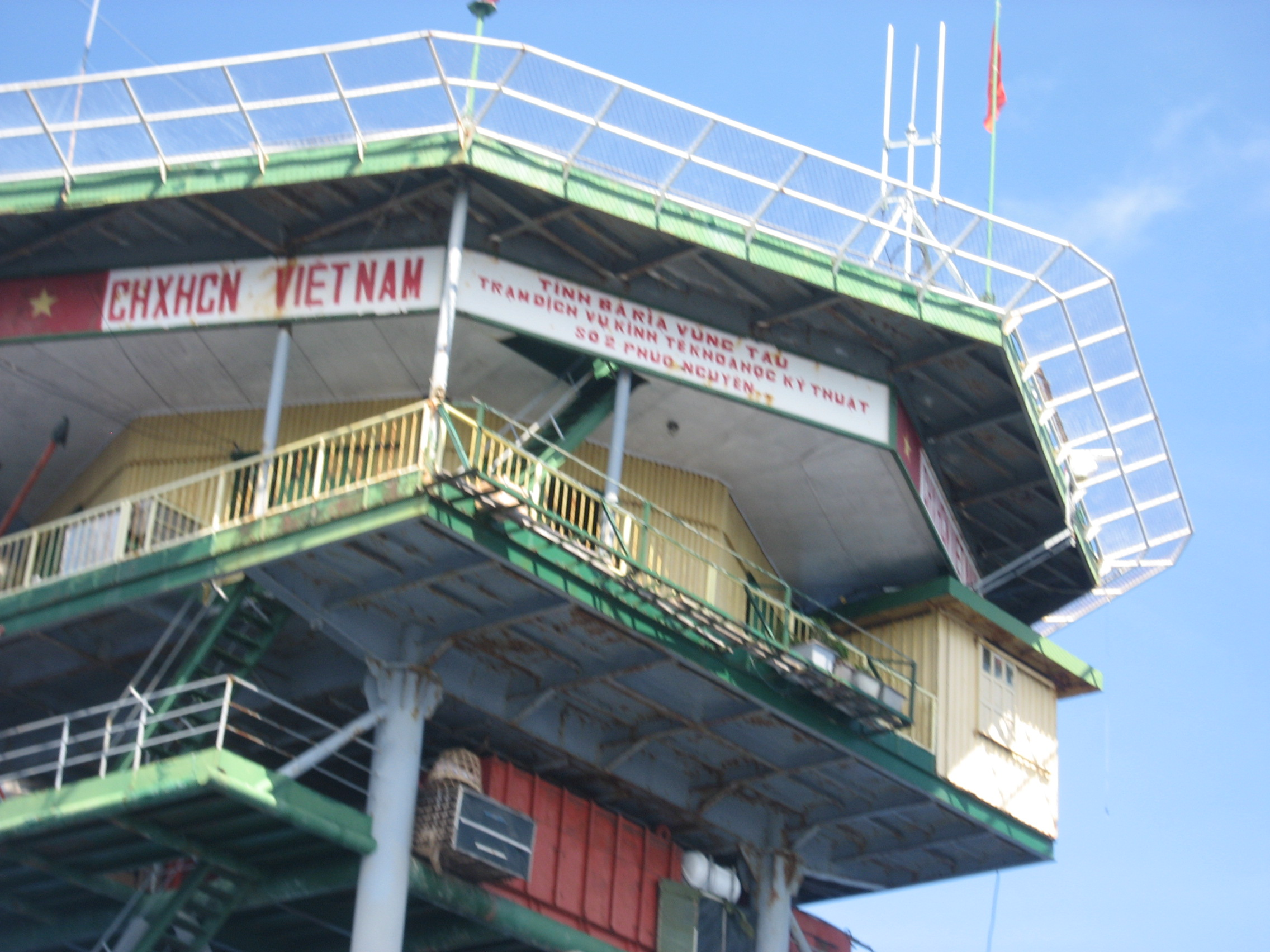 DK1/15_Prince-Consort-Bank_Close-up